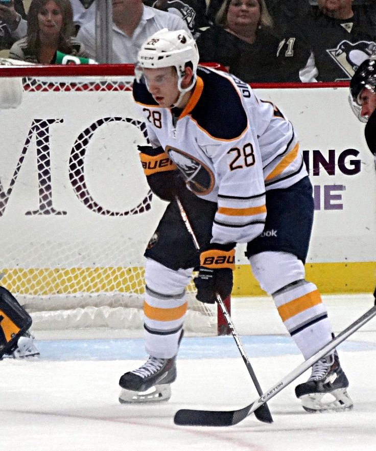 Buffalo Sabres foward Zemgus Girgensons skates against the Pittsburgh Penguins, October 5, 2013, at Consol Energy Center in Pittsburgh, PA.